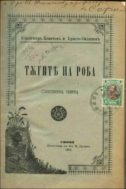 Tagite na Roba